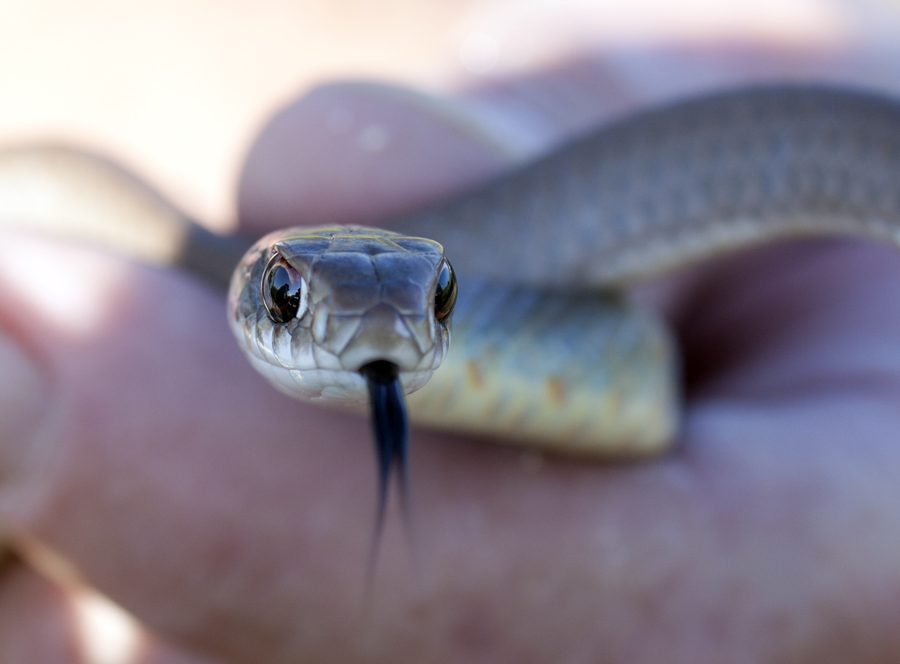 Eastern Coachwhip snake